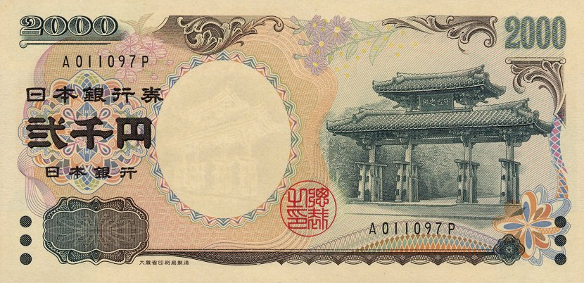 2000 Yen banknote with Shureimon.